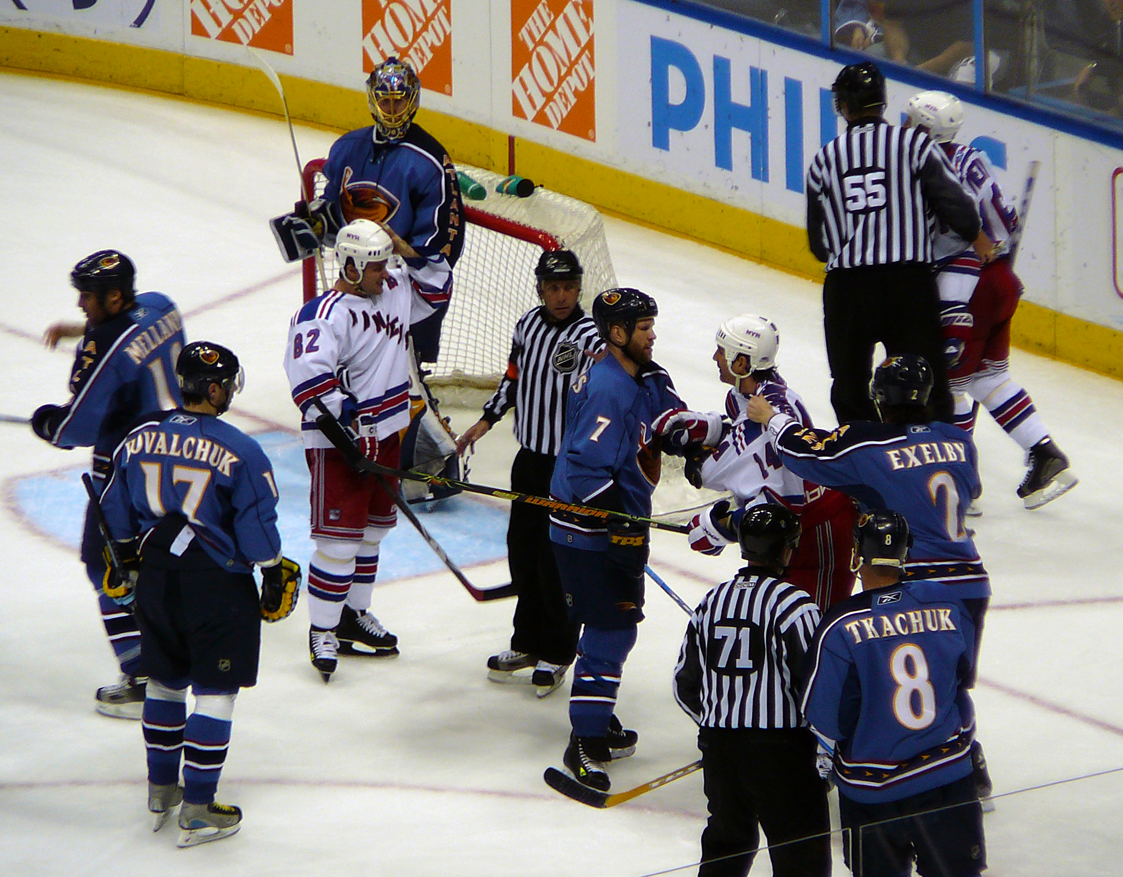 NHL Playoffs 2007, Round 1, Atlanta Thrashers vs. New York Rangers at Philips Arena